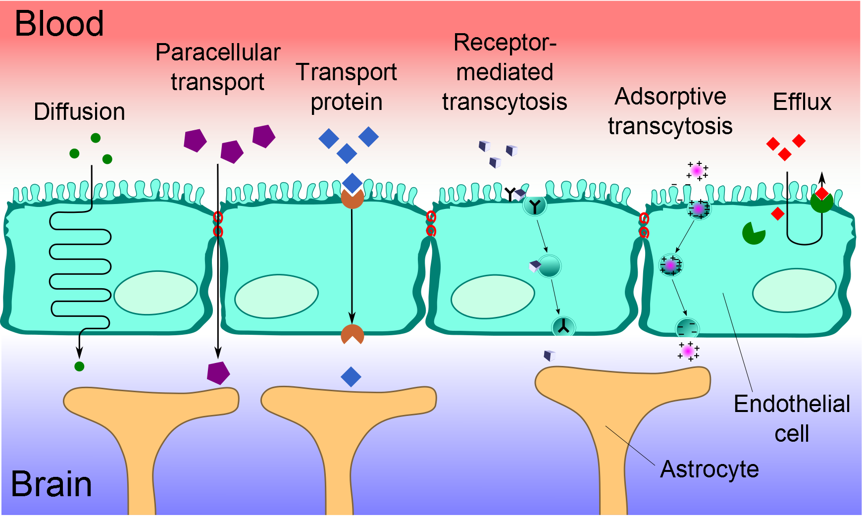 Schematic sketch showing the transport types at the blood-brain barrier.